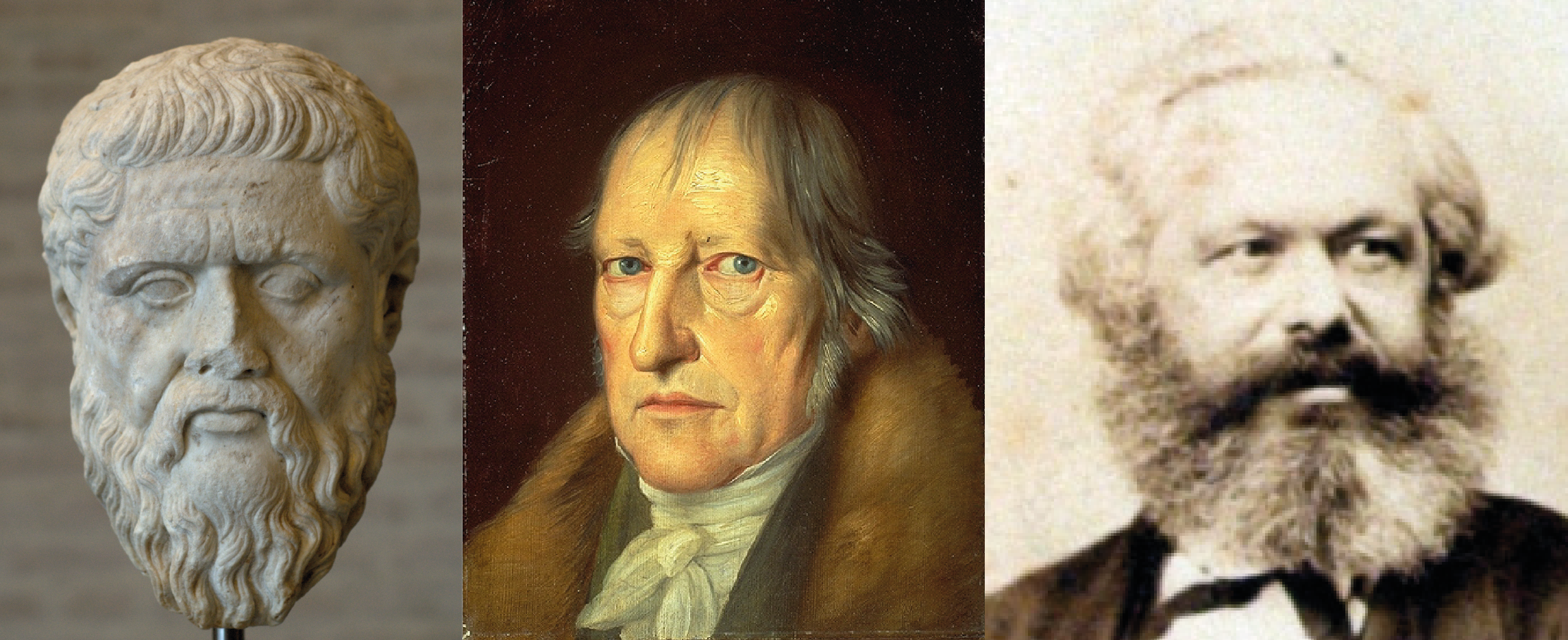 The three Philosophers Platon, Georg Wilhelm Friedrich Hegel and Karl Marx.